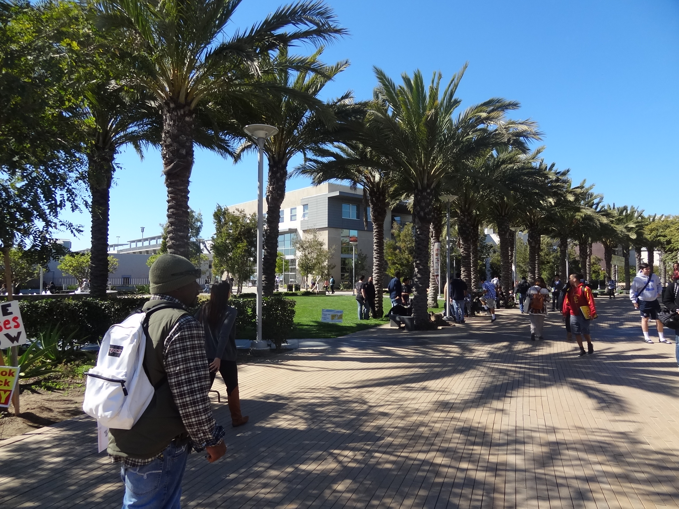 Santa Monica College—SMC boardwalk with HSS in background.